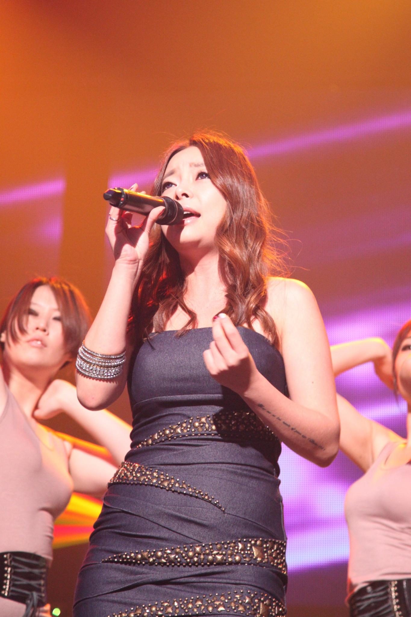 Hwayobi at the 2011 Cyworld Dream Music Festival